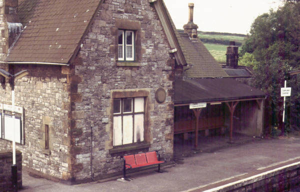 Cark and Cartmel railway station